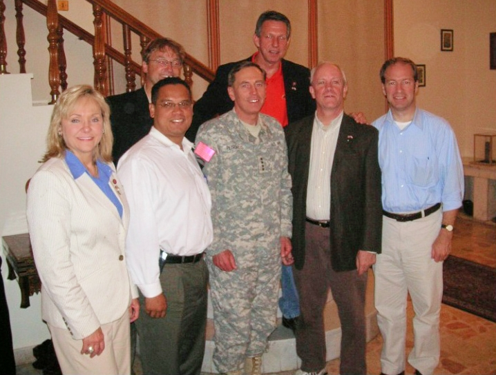 Al Idrisi, Baghdad, Iraq